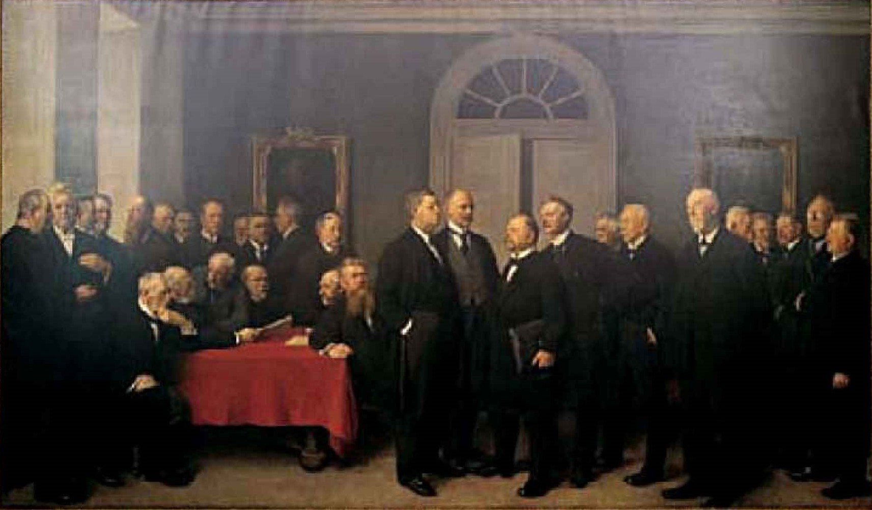 The painting "Fra forhandlingerne om Grundloven 5. juni 1915 (2)" by Herman Vedel